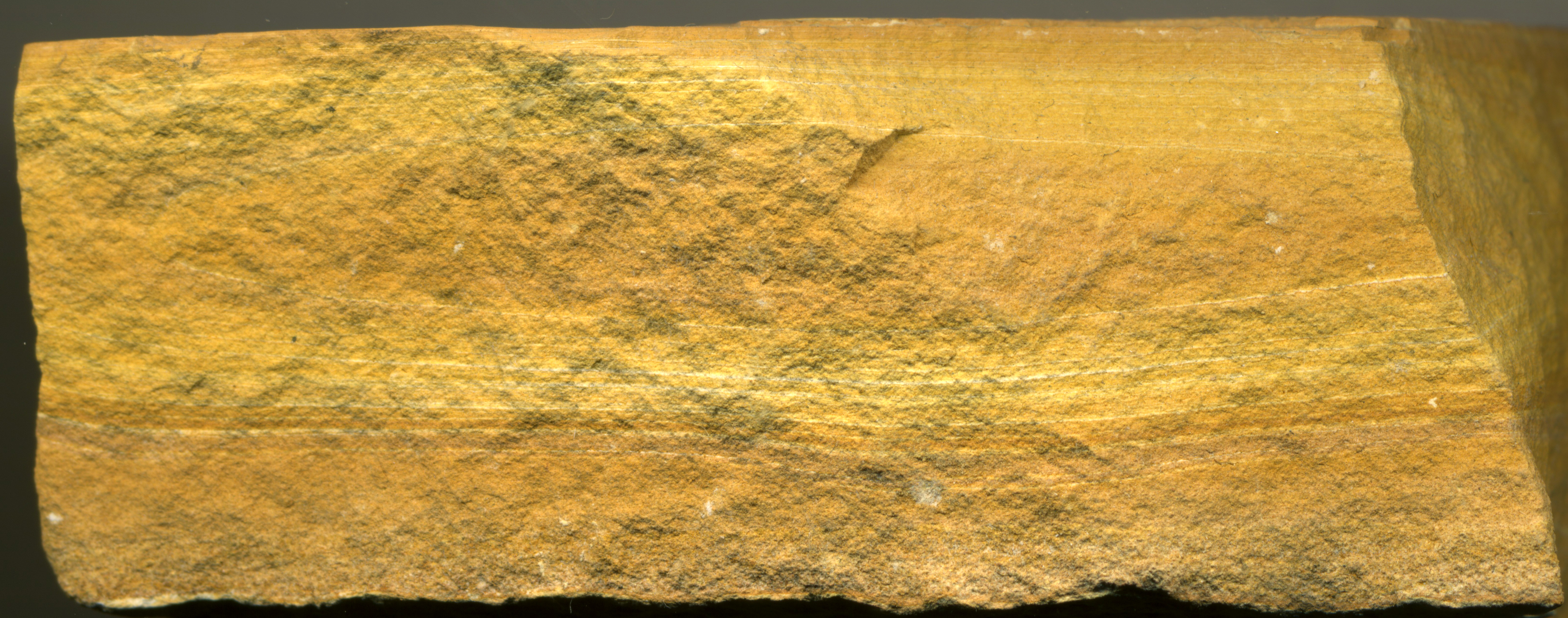 Volcanic tuff (bentonite) (ash-fall tuff) (Split Fish Layer, Fossil Butte Member, Green River Formation, Lower Eocene; Promised Lands Quarry, Hams Fork Plateau, southwestern Wyoming, USA. 67 mm across along the base. Volcanic tuff interbed in succession of fossiliferous lacustrine marlstones, Split Fish Layer, Fossil Butte Member, Green River Formation, Lower Eocene, ~49 to 51 Ma. Locality: wall of Promised Lands Quarry (SE1/4 sec. 22, T22N, R17W), Hams Fork Plateau, ~13.5 to 14 km northwest of the town of Kemmerer, southwestern Wyoming, USA. This is a volcanic tuff, also known as a bentonite. It formed during an ash fall event following an explosive volcanic eruption. The tuff is probably a magnesian rhyolite or dacite. Tuff beds such as this occur as interbeds in the famous fossil fish-bearing beds of the Green River Formation in southwestern Wyoming. The source volcano for this particular volcanic tuff is undetermined, but published research has shown that it likely derived from the Absaroka Volcanic Field (= modern-day Yellowstone National Park area and adjacent Absaroka Mountains of northwestern Wyoming) or the Challis Volcanic Field of central Idaho.